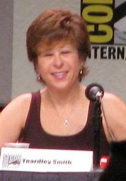 Yeardley Smith at Comic Con 2007